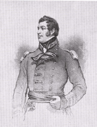 Francis Ogilvy-Grant, 6th Earl of Seafield (1778-1853)